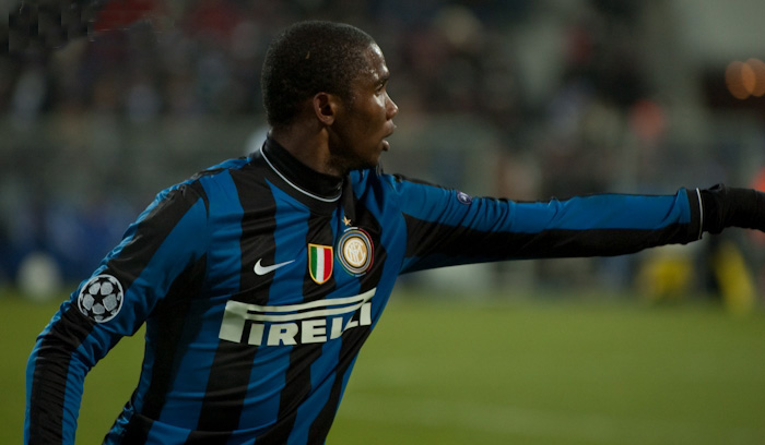 Samuel Eto'o with Inter shirt during a Champions League game